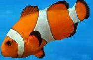 Ocellaris Clownfish